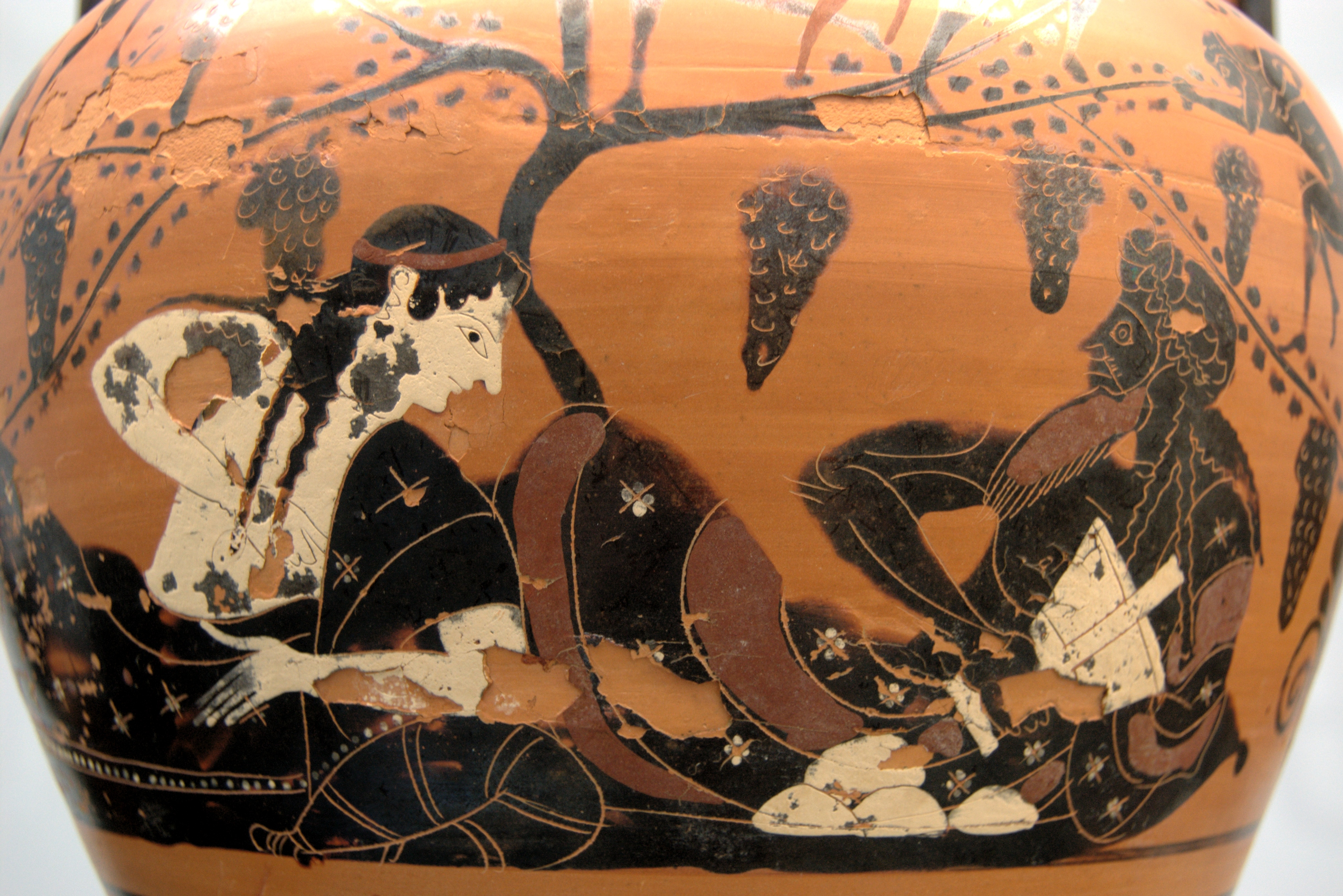 Dionysos and Ariadne (?). The god, lying on the floor, holds a typical kantharos; next to him, a plate with breads. Attic black-figure neck-amphora, ca. 520 BC. From Vulci.